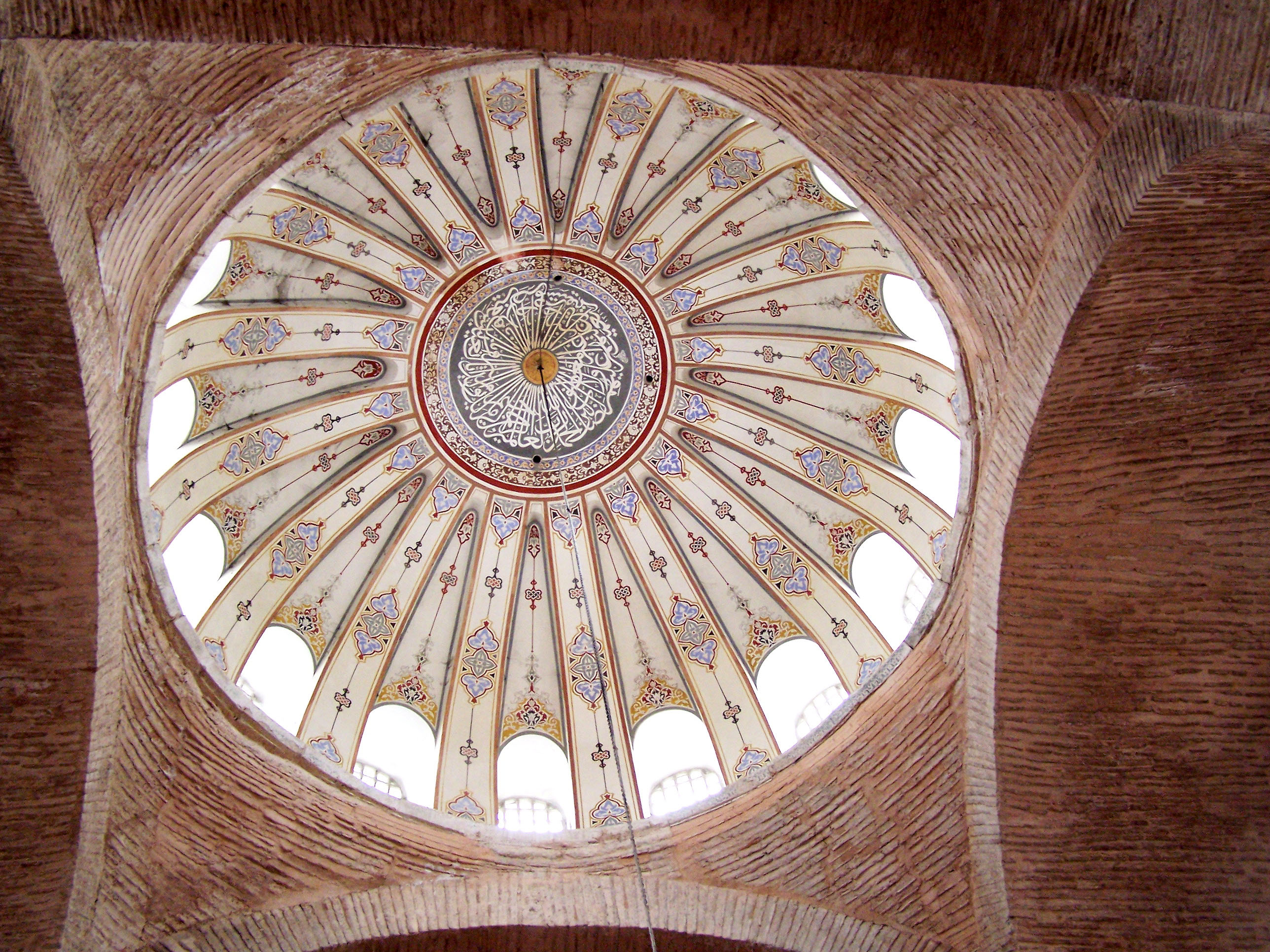 Central dome of Kalenderhane Camii in Fatih, İstanbul, Turkey